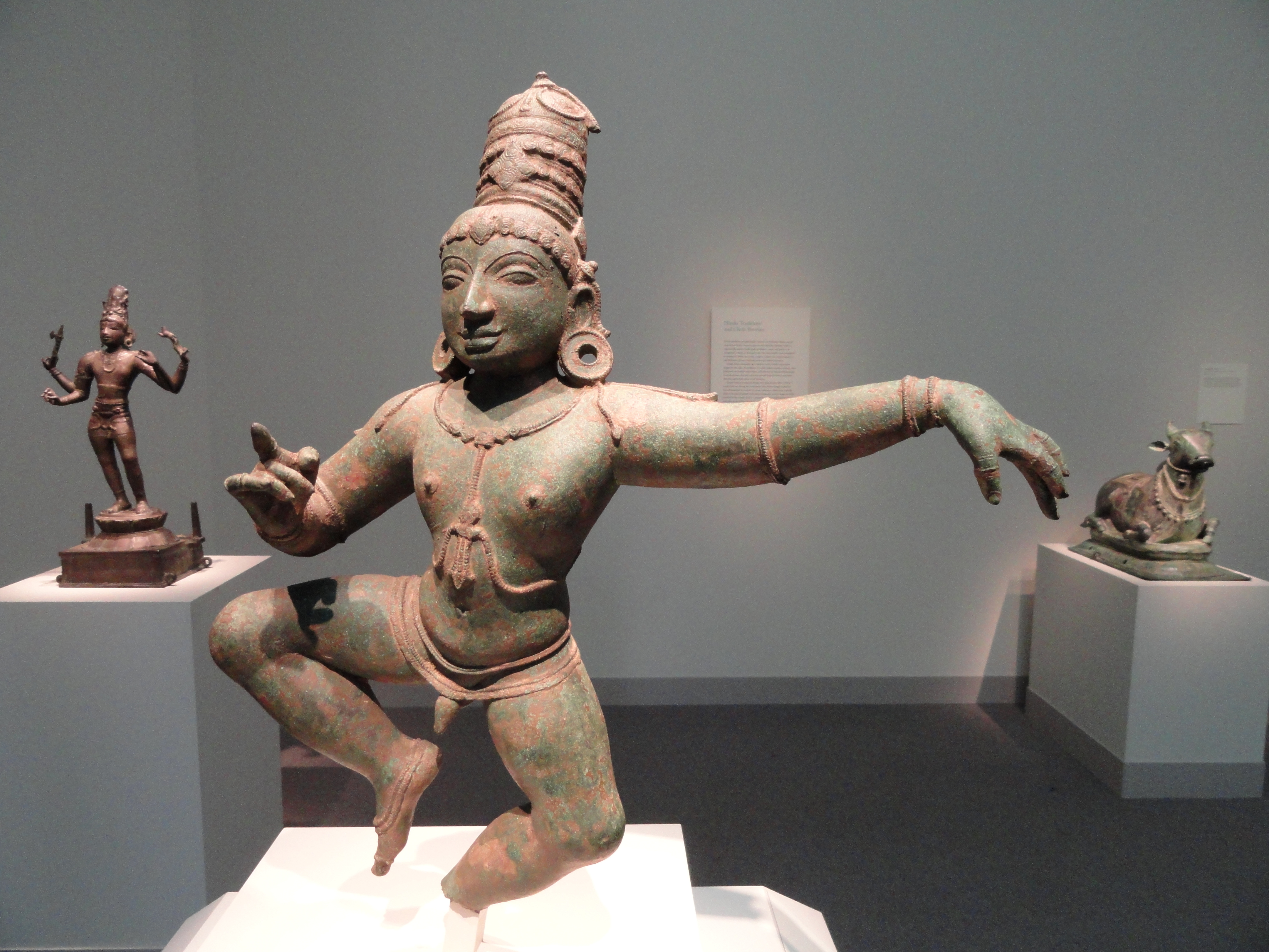 Exhibit in the Freer Gallery of Art, Washington, DC, USA. This artwork is old enough so that it is in the public domain.